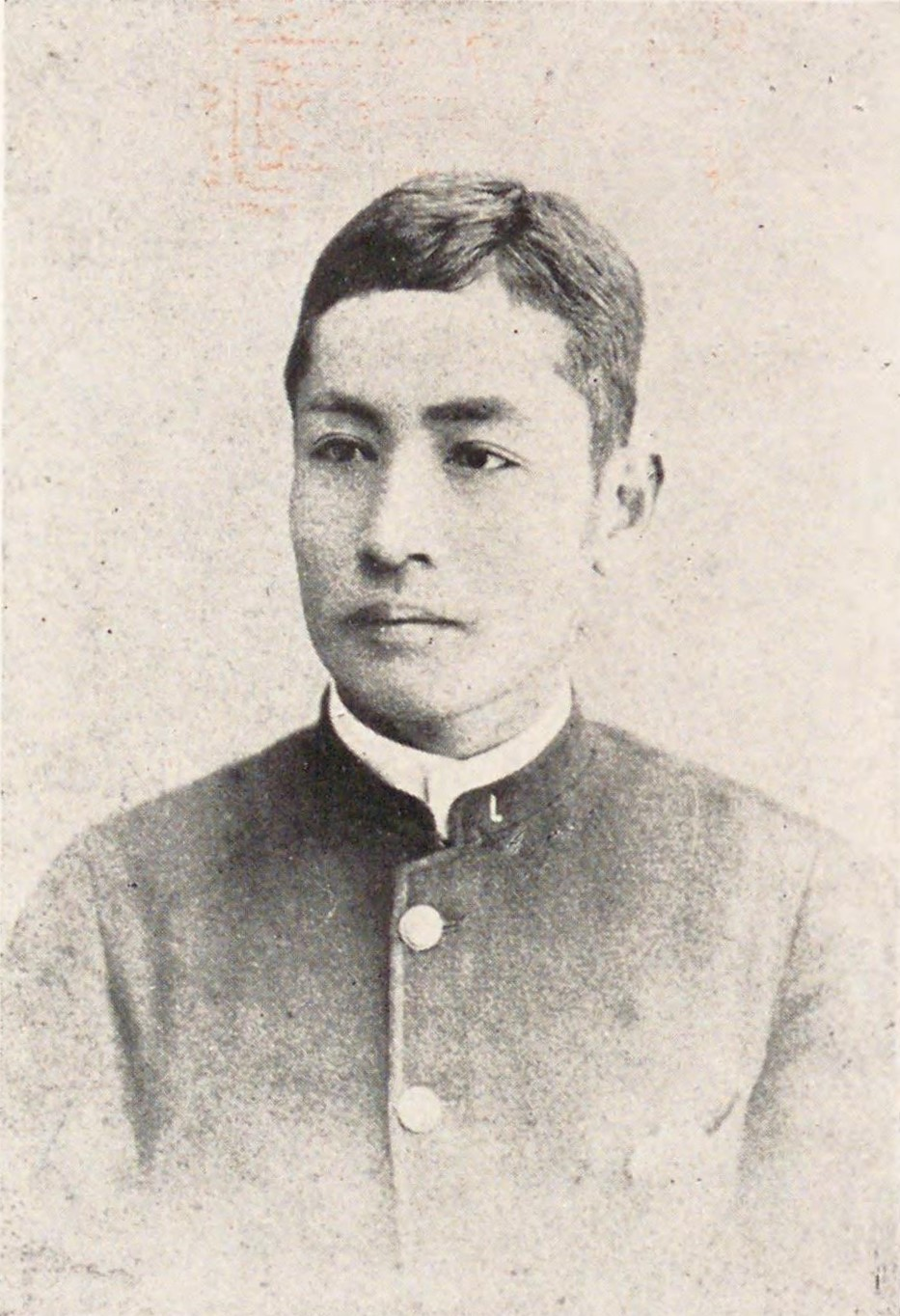 Natsume Soseki as a student of the Imperial University (December 1892).